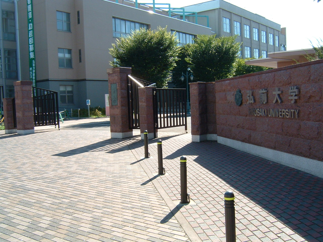 Hirosaki University (Japanese: 弘前大学; hirosaki daigaku) is a University in Hirosaki city in Aomori, Japan.